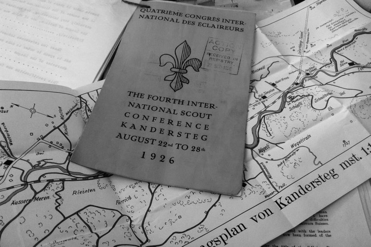 Fourth International Scout Conference, Kandersteg August 22nd to 28th 1926 Archives of the International Committee on Intellectual Cooperation (League of Nations), UN Geneva. Source: Grandjean, Martin (2013) Archives en images : Quelques aperçus de la Commission de coopération intellectuelle.